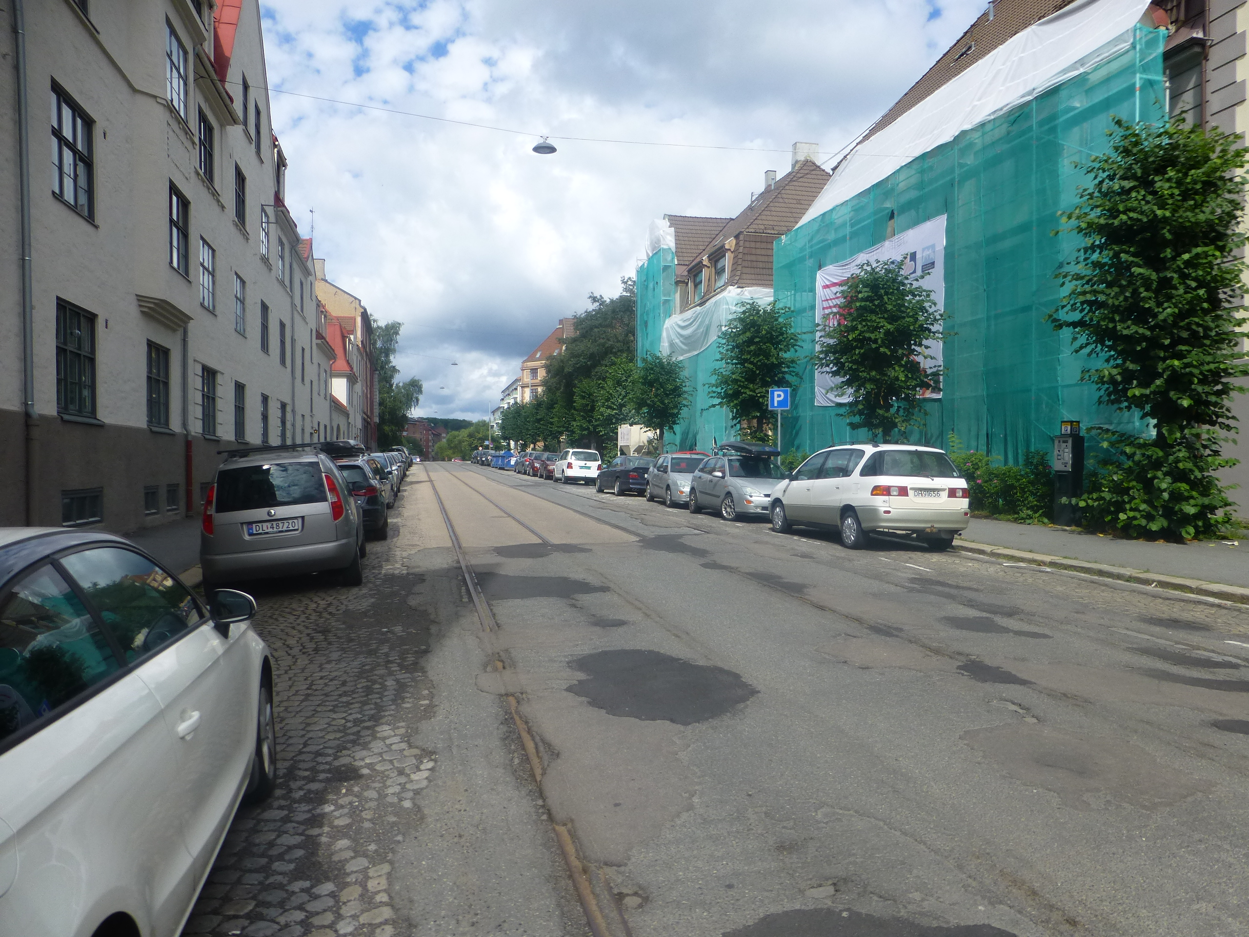 Tracks from the tramway Sagene ring in Bentsebrugata in Oslo which was abandoned in 1998.